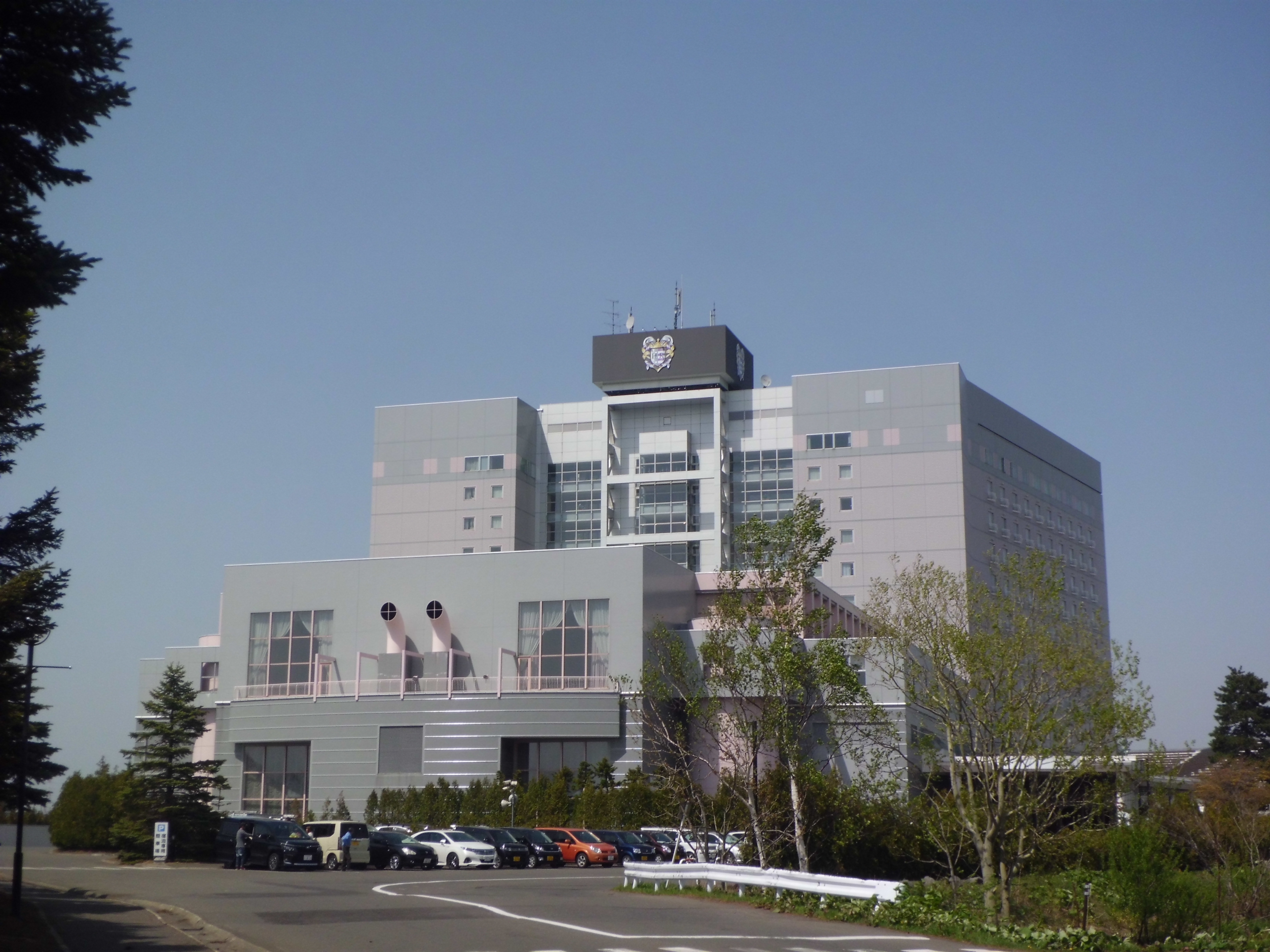 Chateraise Gateaux Kingdom SAPPORO